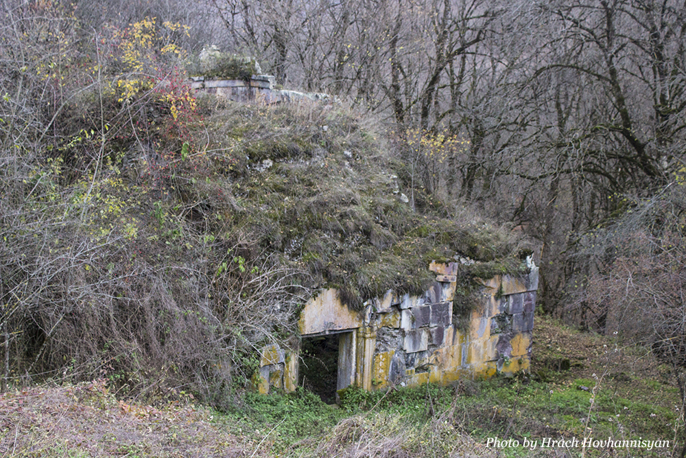 Photo by Hrach Hovhannisyan 8/8.3